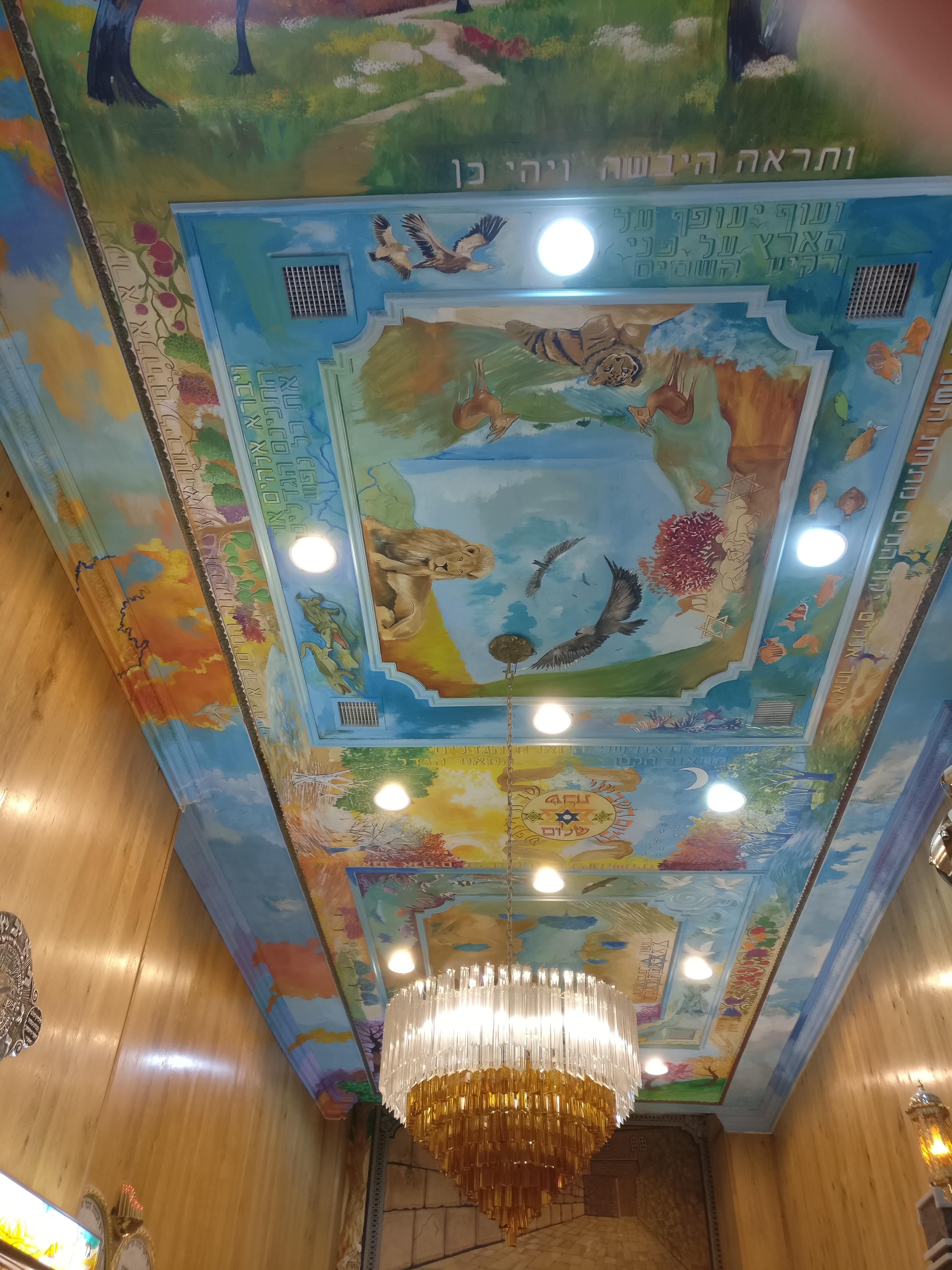 Ceiling of the Hesed Verahamim Synagogue, Nahlaot, Jerusalem